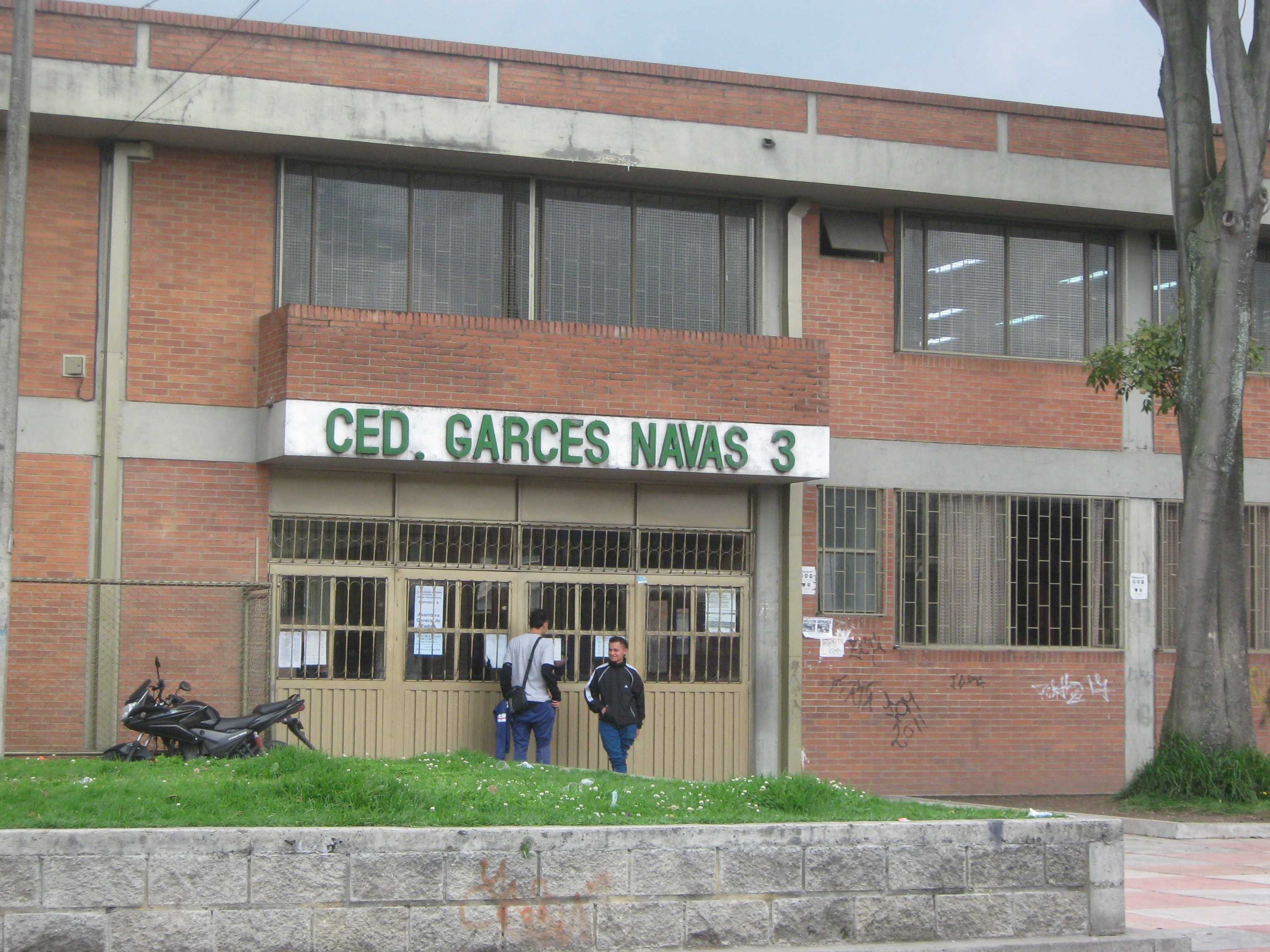 imagen.